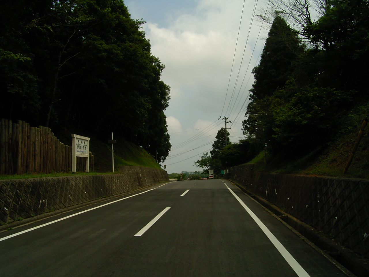 Nunobiki Pass (Nunobiki-toge) on the border between Tsu and Iga Cities, Mie Prefecture, Japan